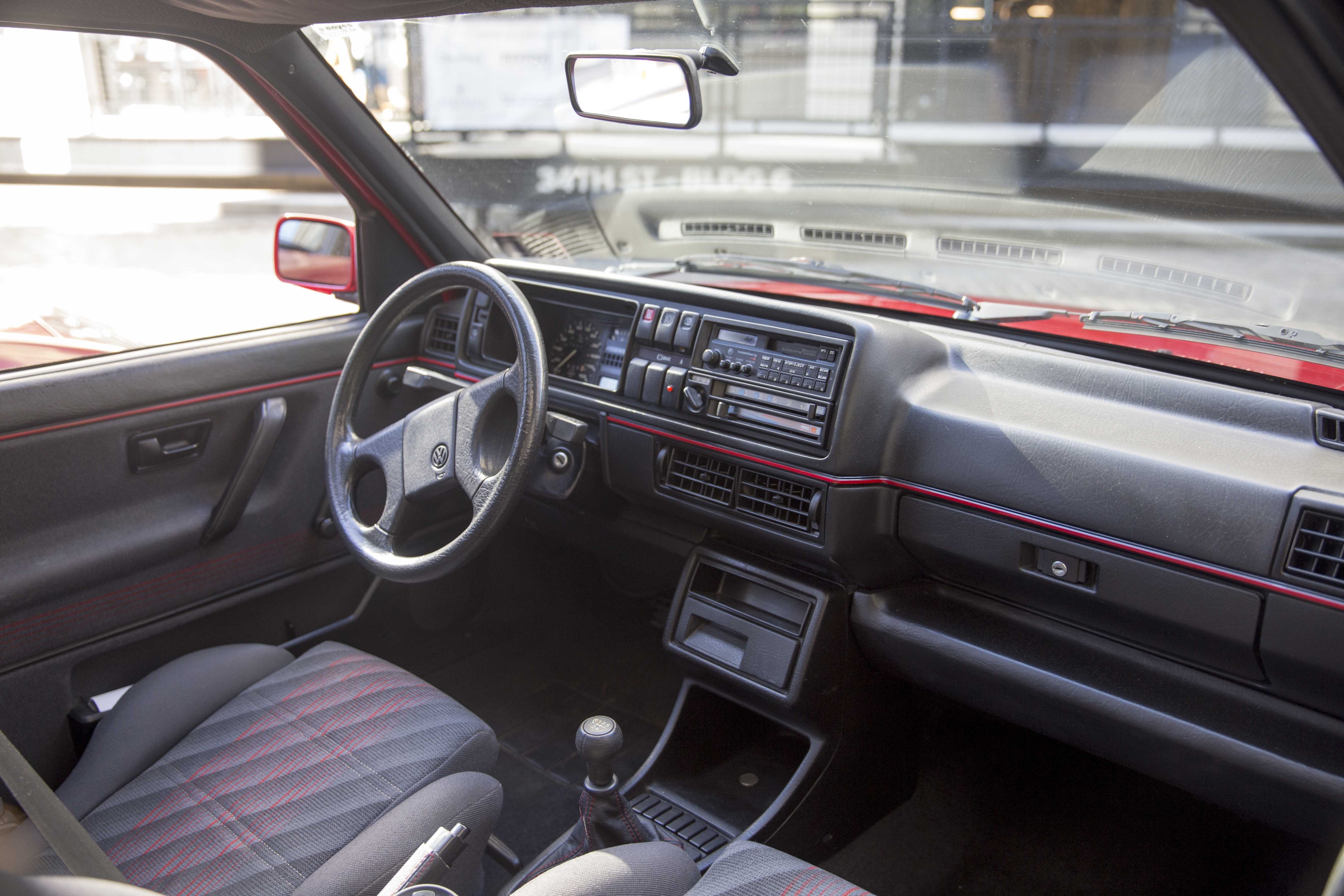 The interior of a 1992 US-spec Volkswagen Golf GTI 8V 5-speed at a car meet in Brooklyn's Industry City. Very well kept for a car with close to 150,000 miles on it! Built in Puebla, Mexico.